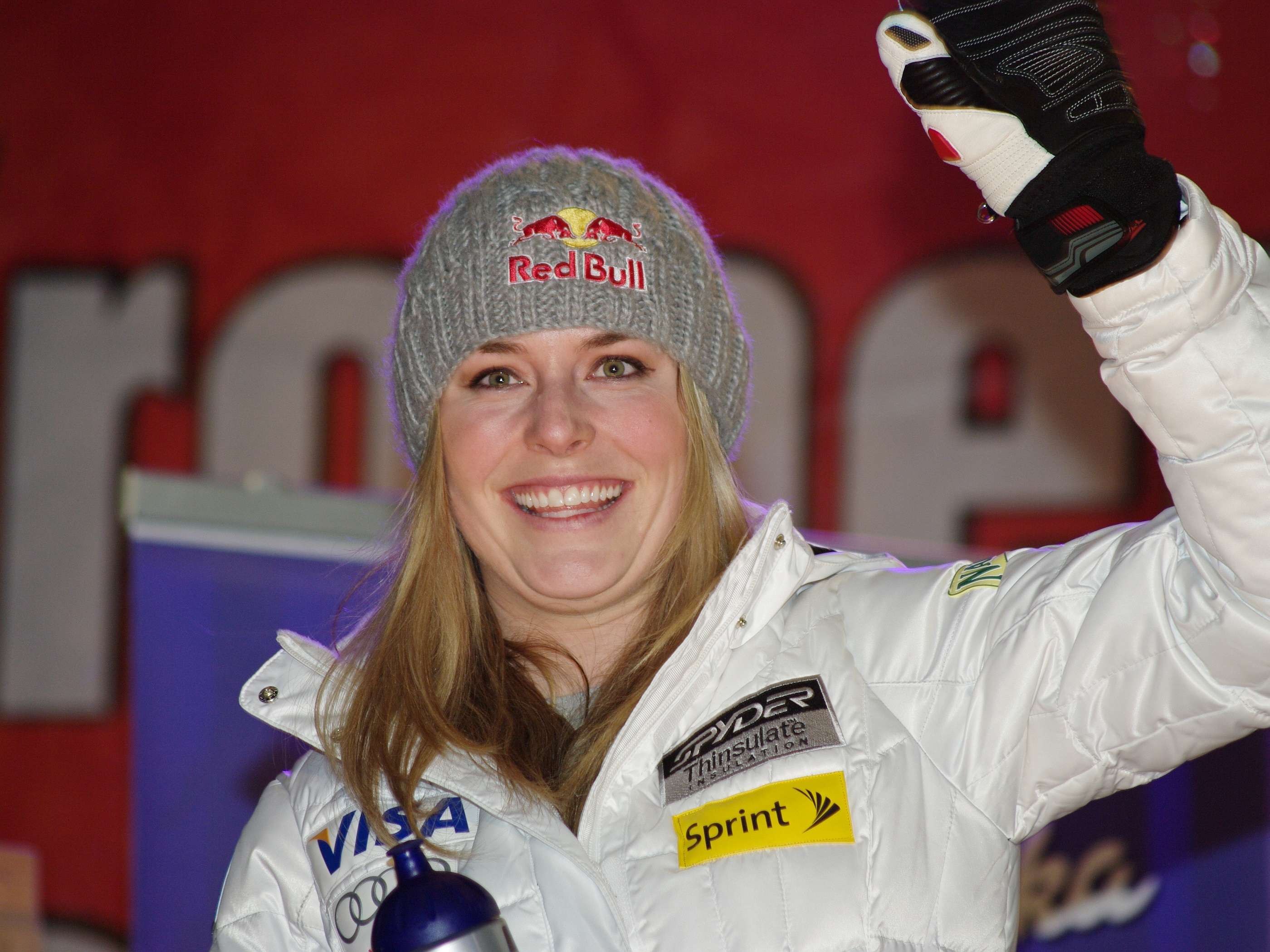 American alpine skier Lindsey Vonn at the bib draw for the Downhill in Altenmarkt-Zauchensee (Austria) on 8 January 2011.